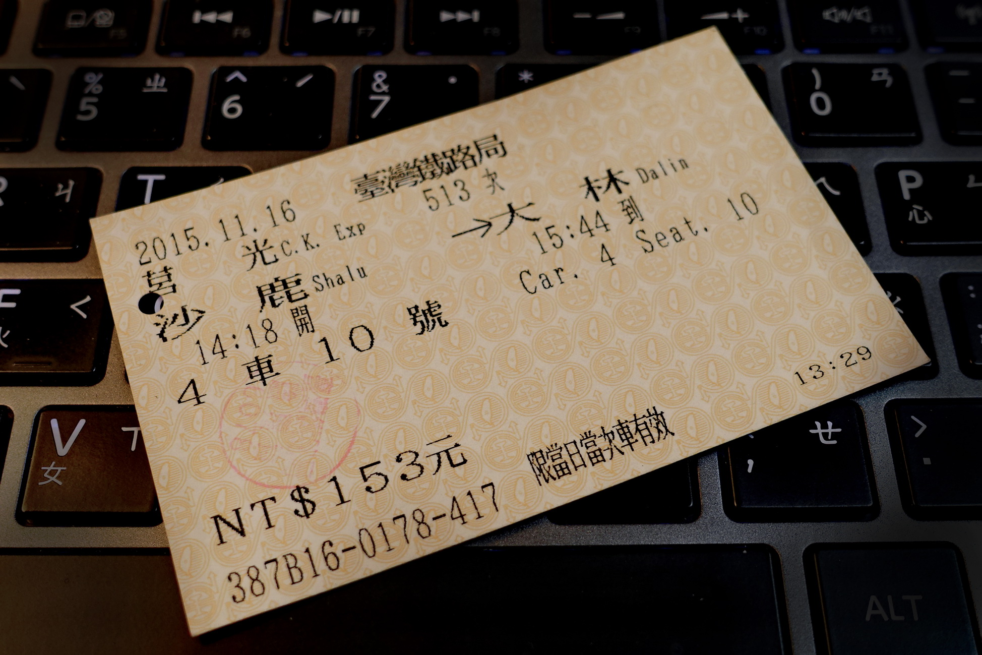 TRA Chu-Kuang Express train ticket with seat reservations (Car 4 Seat 10), from Shalu to Dalin.